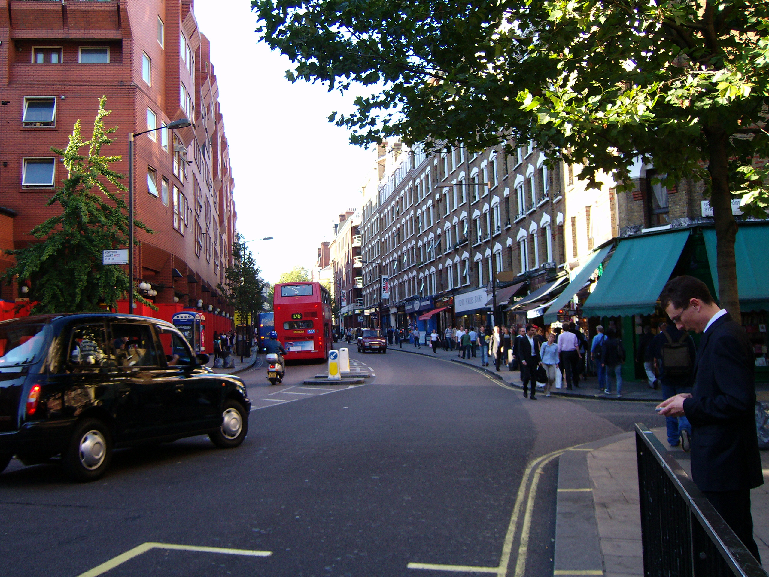 Charing Cross Road, London, looking North from its junction with Long Acre. (C) Gerry Lynch, 2005.